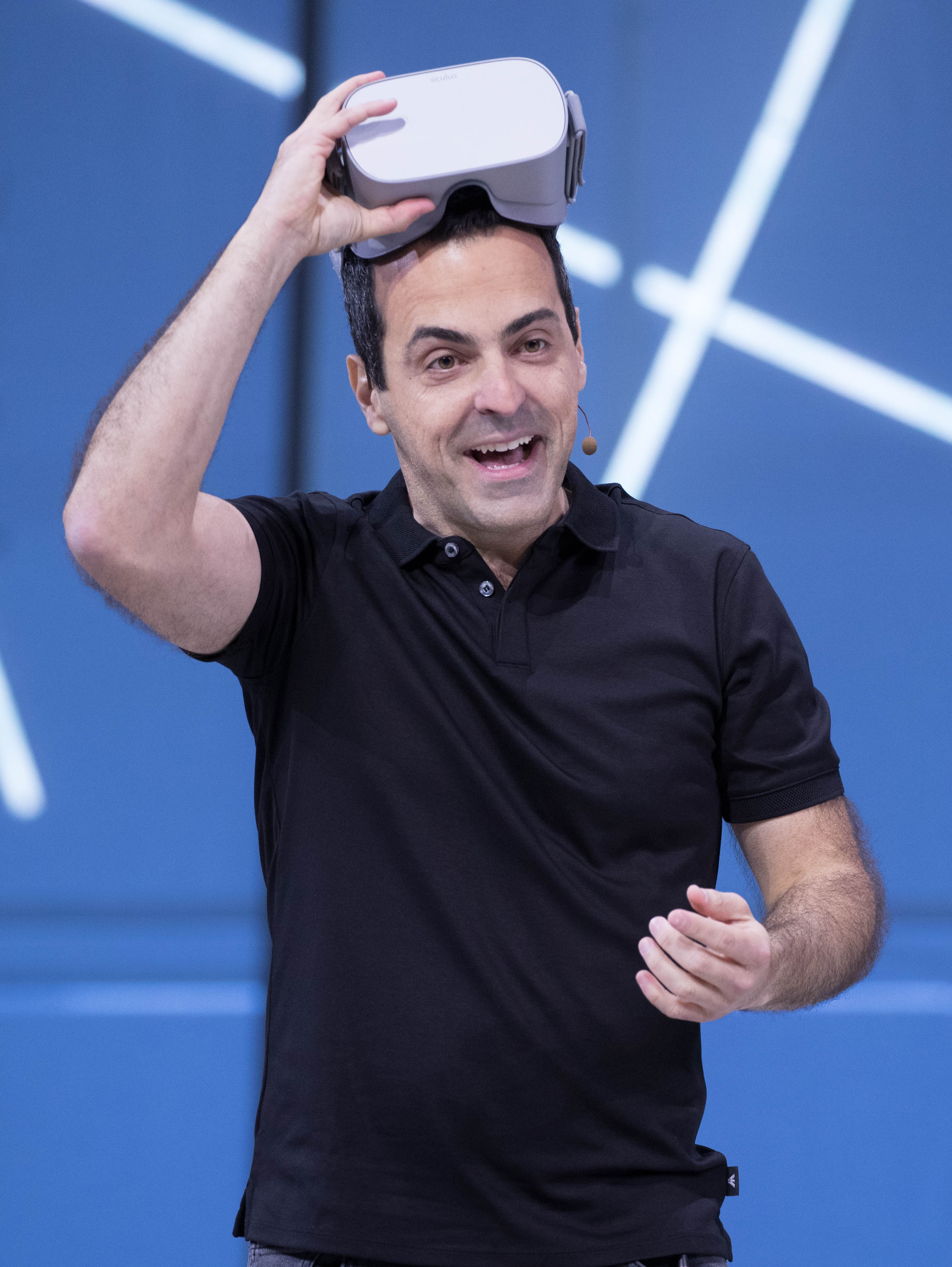 Facebook's Vice President of Virtual Reality, Hugo Barra at Facebook's 2018 F8 Developer Conference